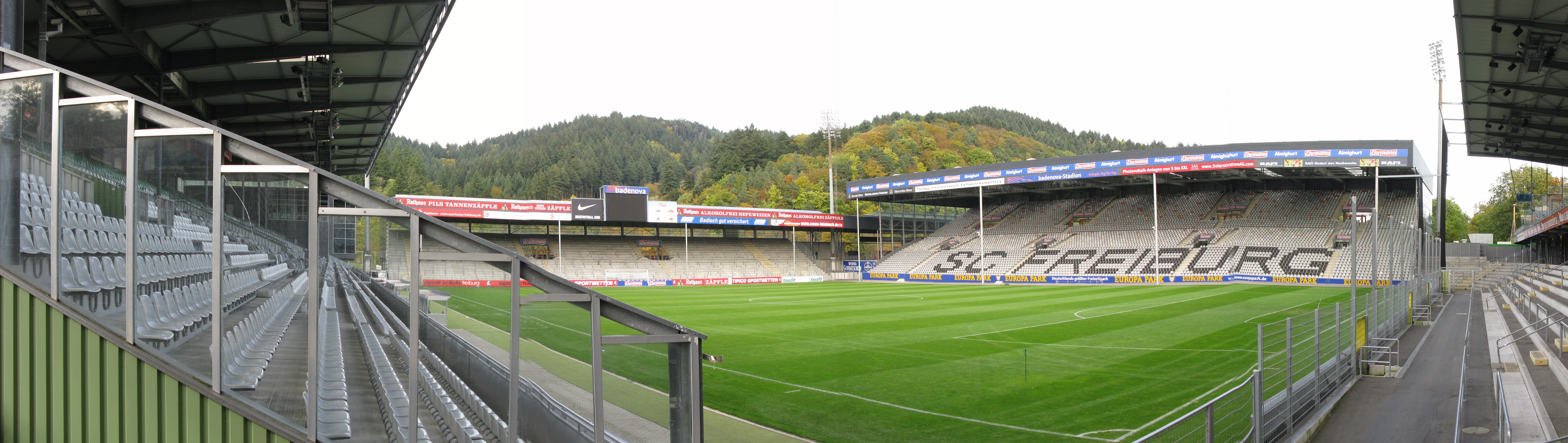 inside the Badenova stadium